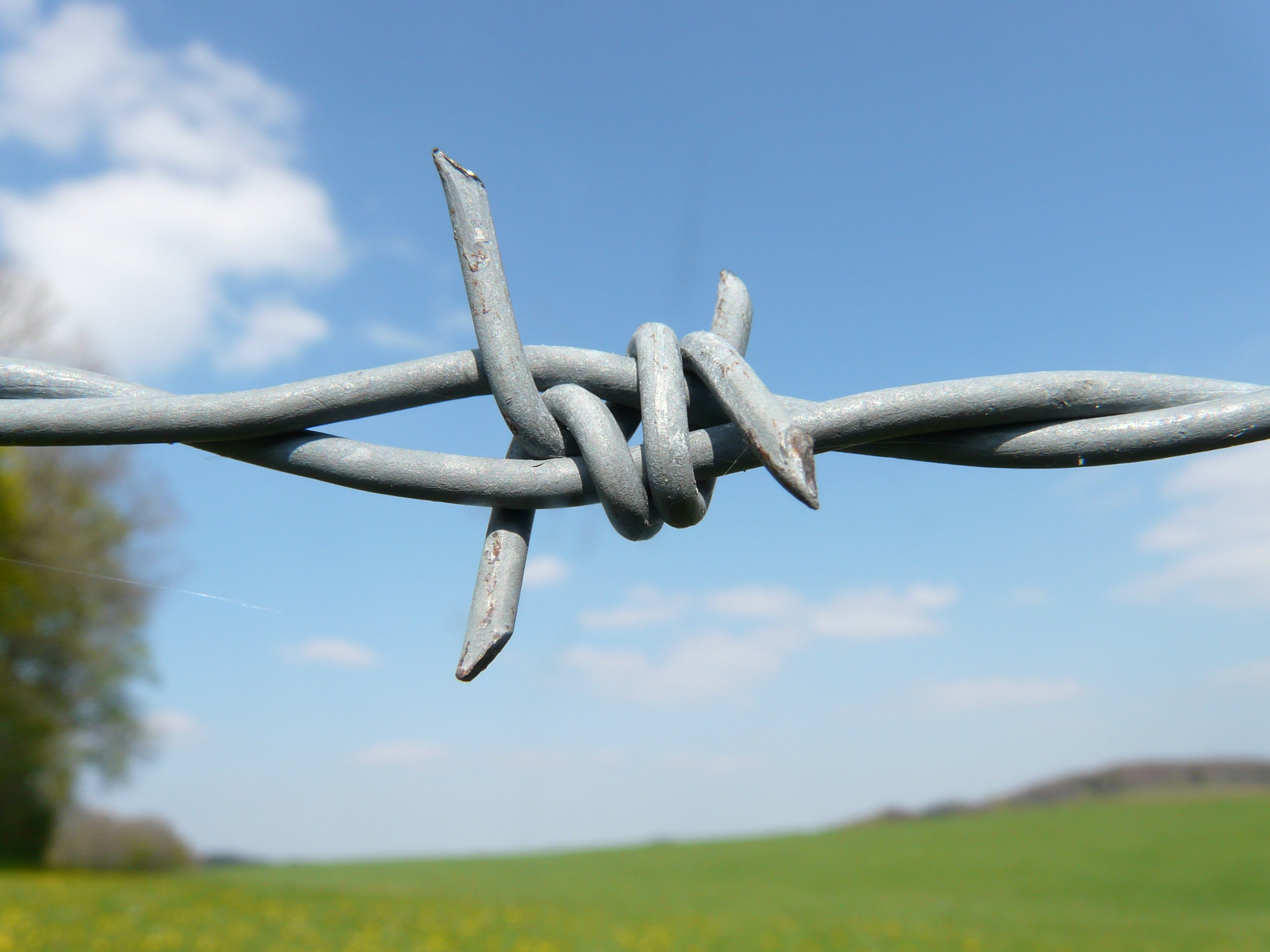 barbed wire